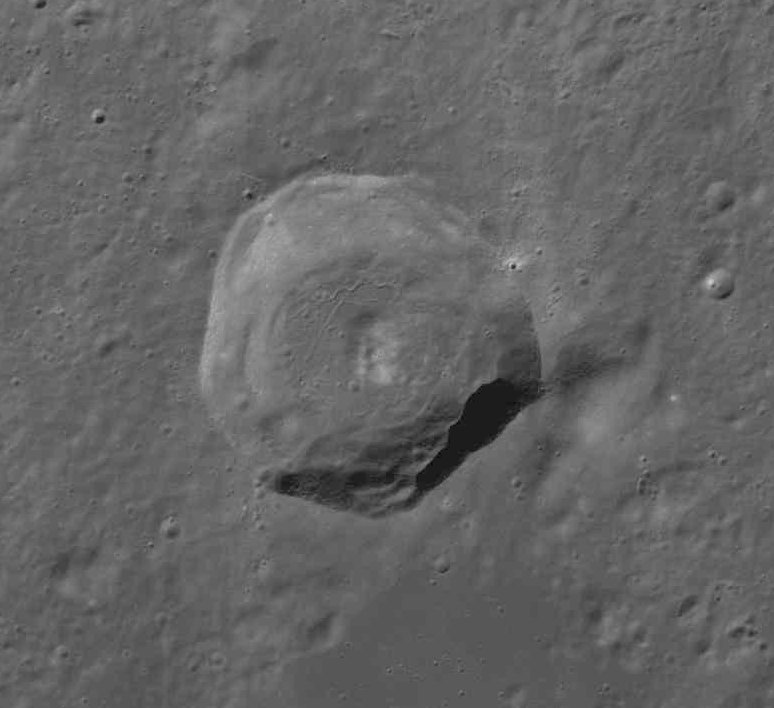 Moon crater Timaeus, Mare Frigoris to the south (north at top; detail of LRO - WAC north pole mosaic)